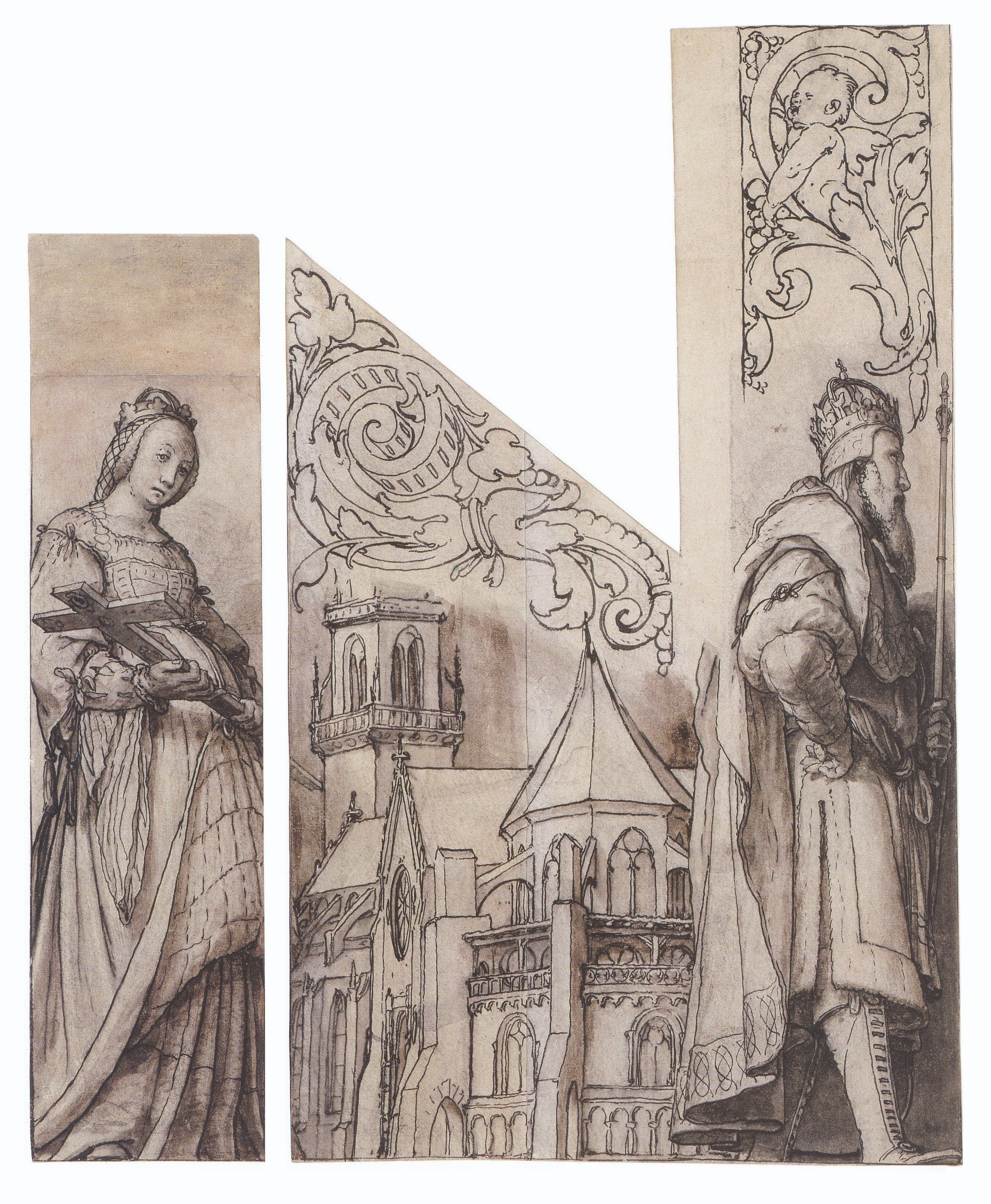 Design for Organ Shutters for Basel Cathedral, parts 1 & 2, left side. Pen and ink and brush over preliminary chalk drawing, brown and grey wash, Kunstmuseum Basel. Right shutters 1. The Empress Kunigunde, 26.1 × 7.6 cm (top), 7.8 cm (bottom) 2. The Emperor Heinrich II and Basel Cathedral, 30.6 (left), 37.9 (right) × 22.2 cm} Organ shutters protected the organ from dust and dirt. Here, the central panels and side panels would have been connected by a hinge. These left-side shutters depict the founders of Basel Cathedral, Heinrich II, Holy Roman Emperor, and his wife St Kunigunde (Müller, 346–47). Holbein deploys perspective and illusion, particularly noticeable in the emperor's elbow, to offset the angles and height of the shutters' positions.